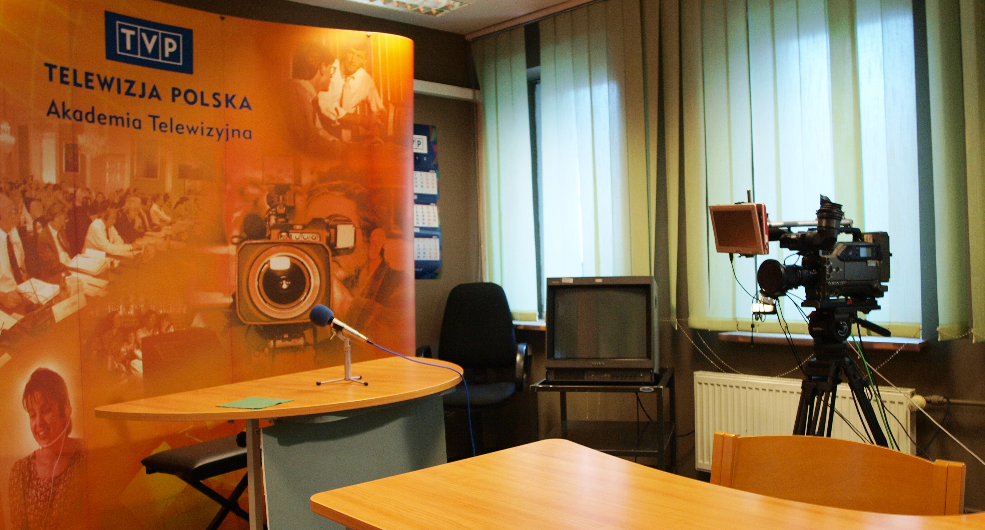 Laboratory Speech Television Academy in Warsaw